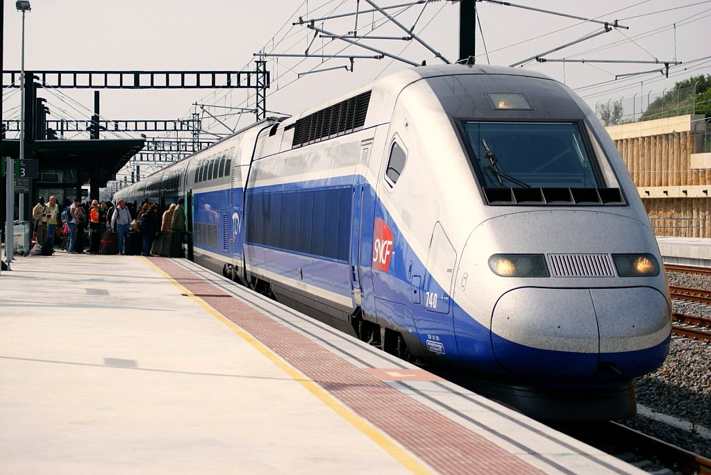 A TGV Duplex DASYE ( asynchrone engine , new generation of duplex ) train at Figueres-Vilafant station